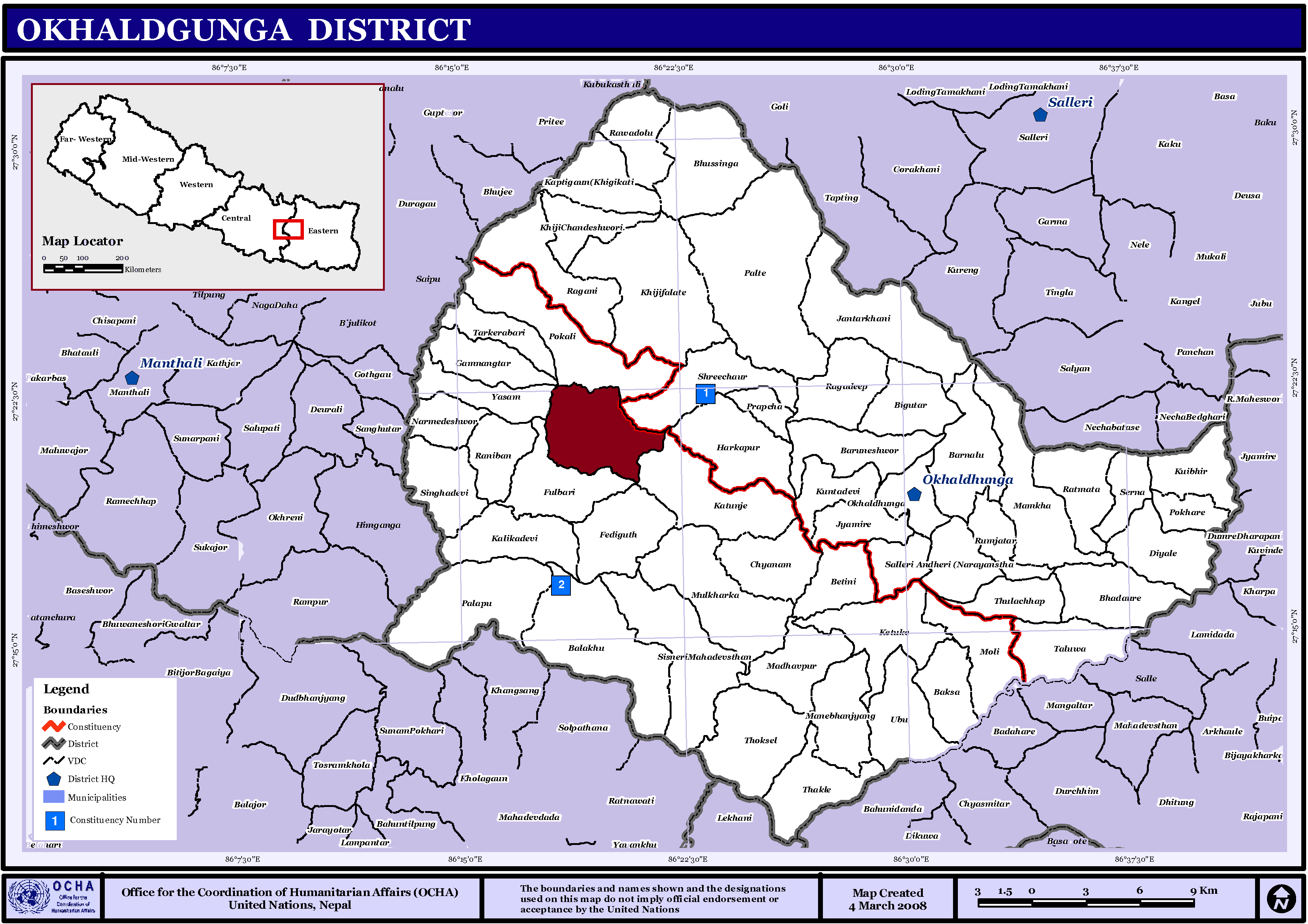 Map displaying Bilandu Village Development Committee in Okhaldhunga District, Nepal